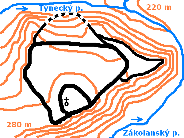 Scheme of terrain and fortification of Budeč near Zákolany, Czech Republic.